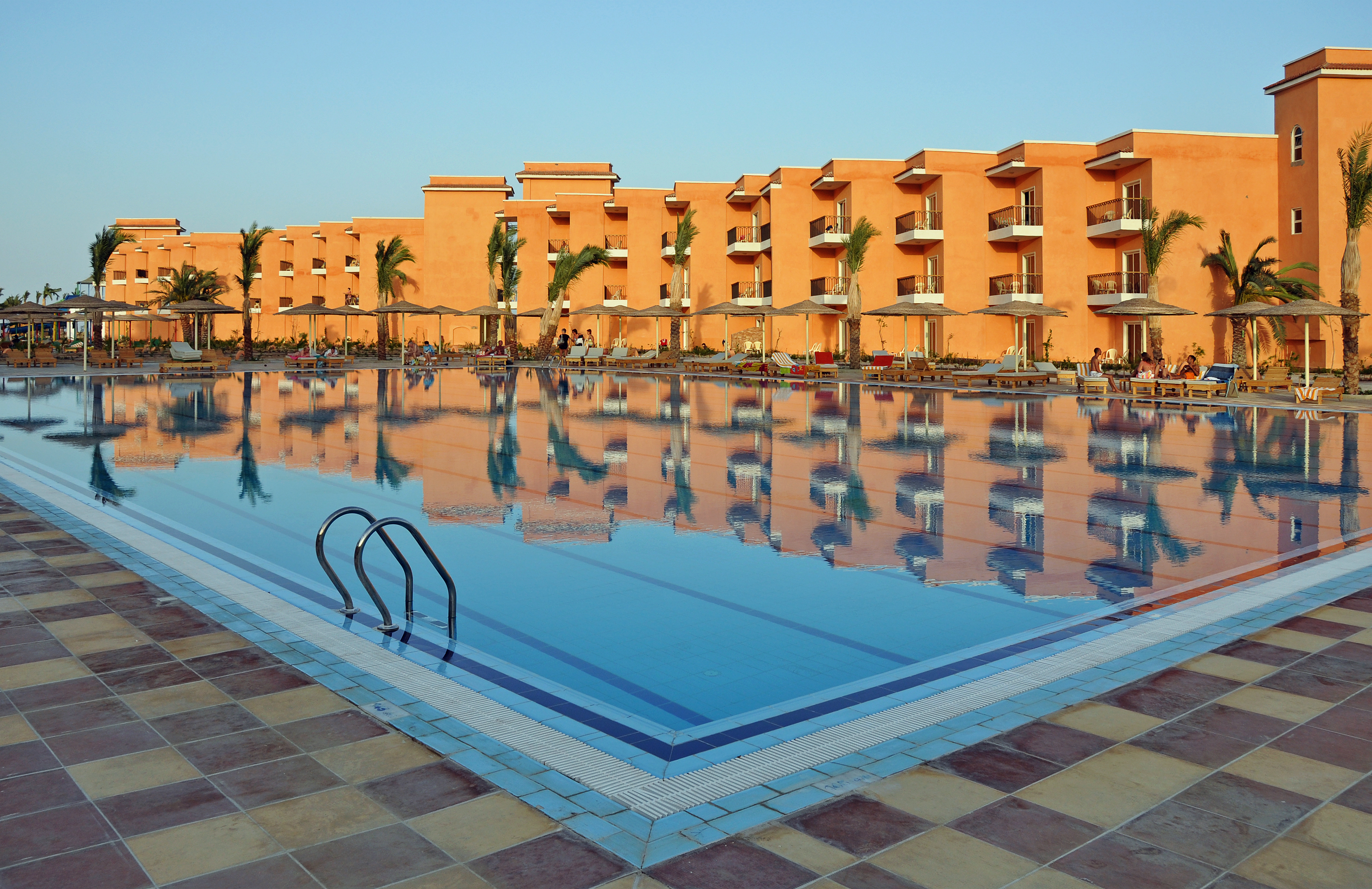 Swimming Pool (TTC Sunny Beach, Hurghada, Egypt)